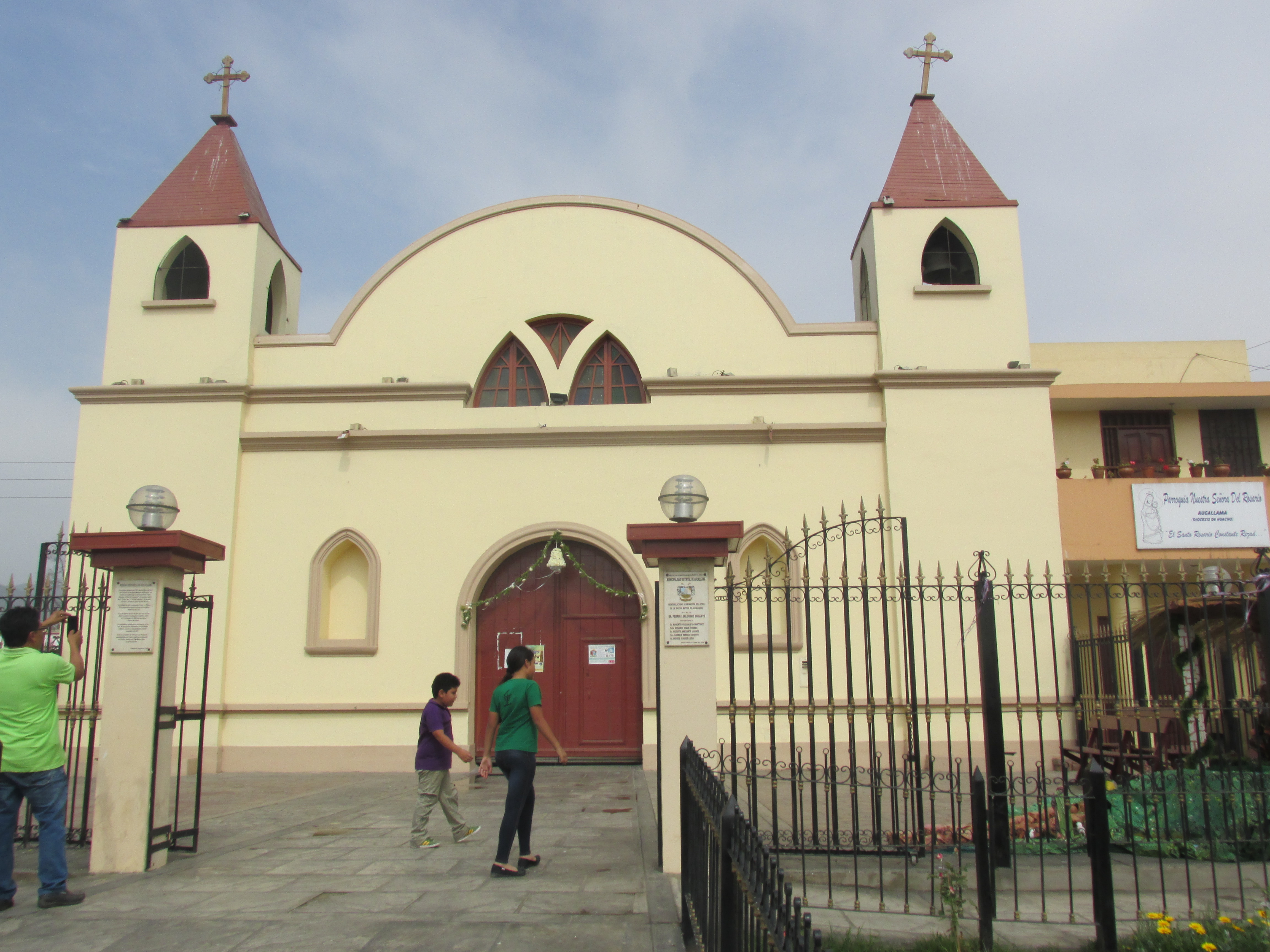 Church of Our Lady of the Rosary in Aucallama District, Huaral Province, Lima Region, Peru.